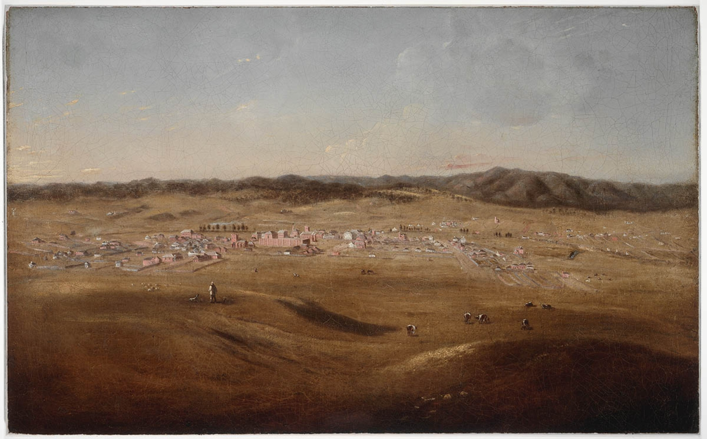 Landscape painting of Bathurst, New South Wales, Australia